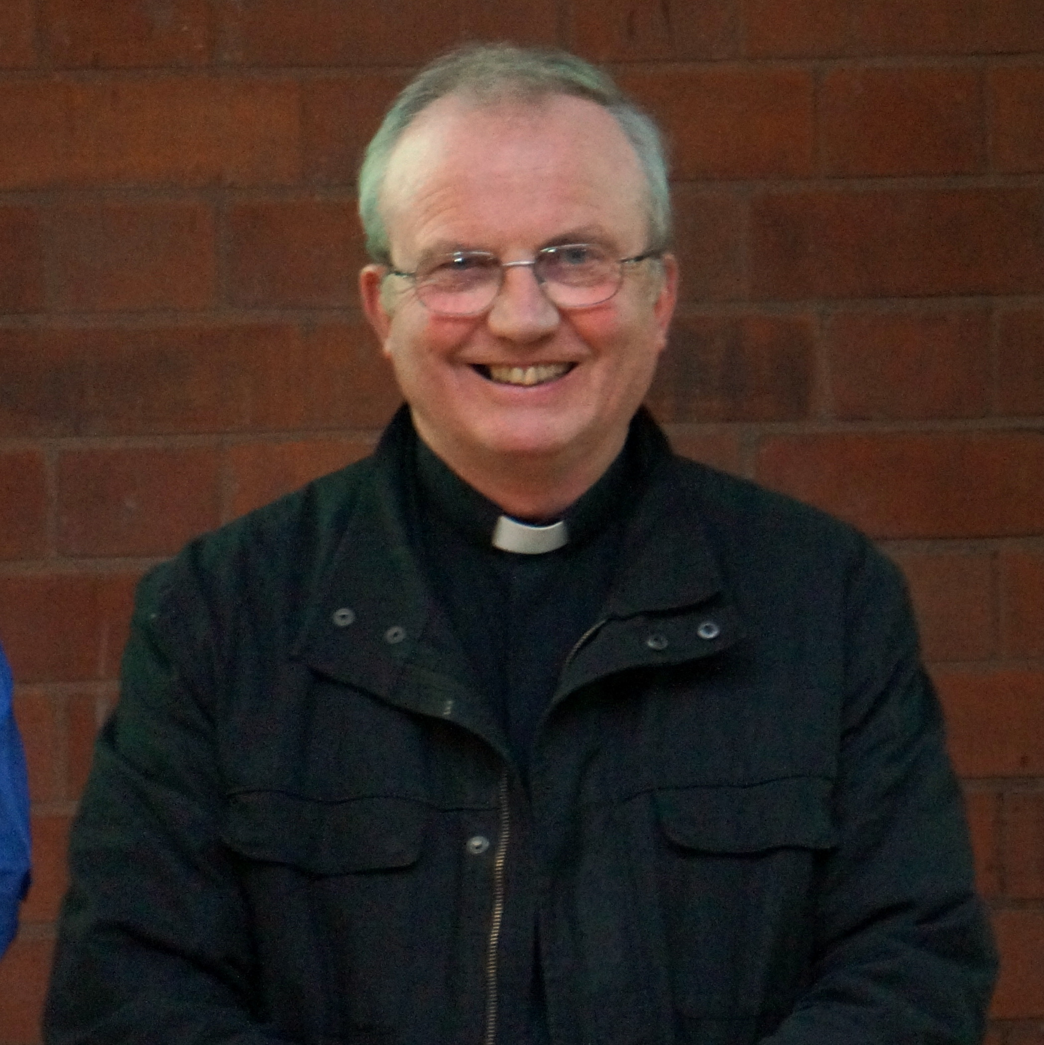 Bishop Donal McKeown & Bishop Harold Miller